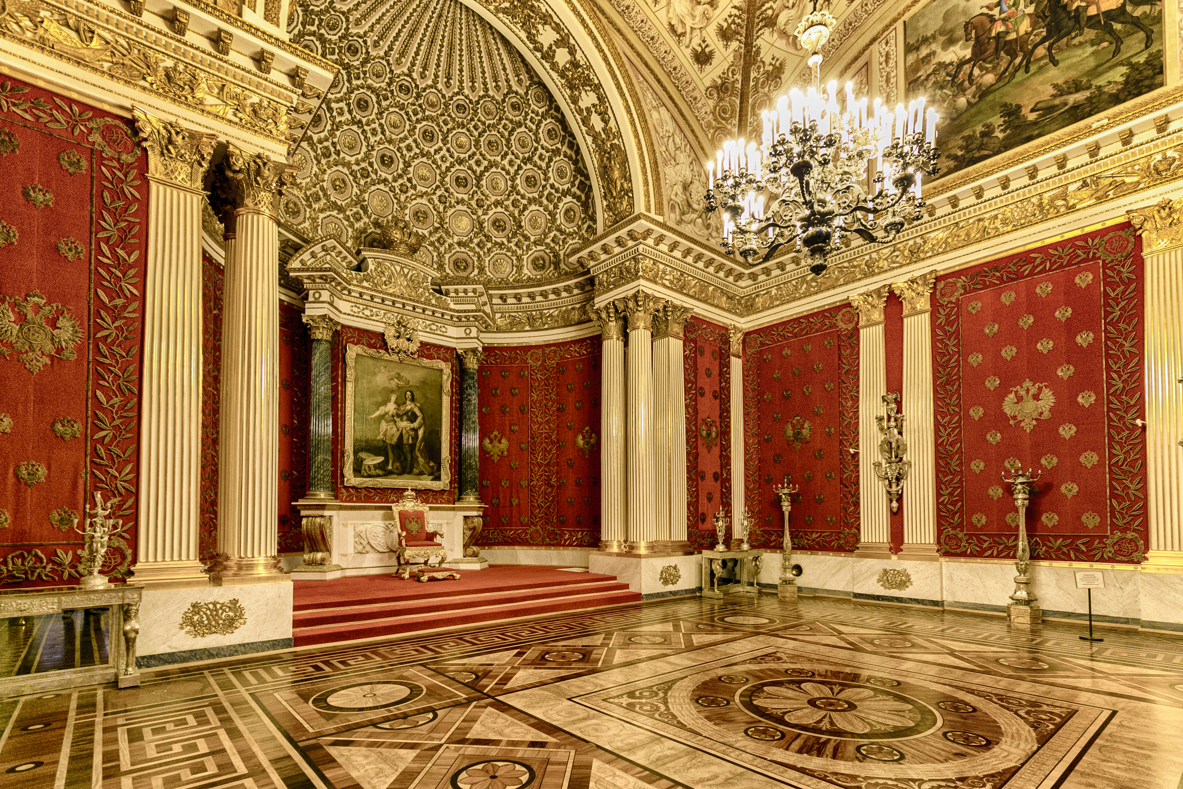 The throne of Empress Catherine II The Great (1729-1796), a collection of the State Hermitage Museum in St. Petersburg